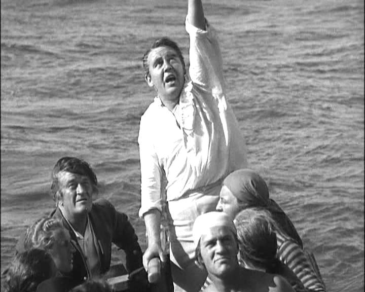 Charles Laughton as Captain Bligh in a screenshot from the trailer for the film Mutiny on the Bounty.